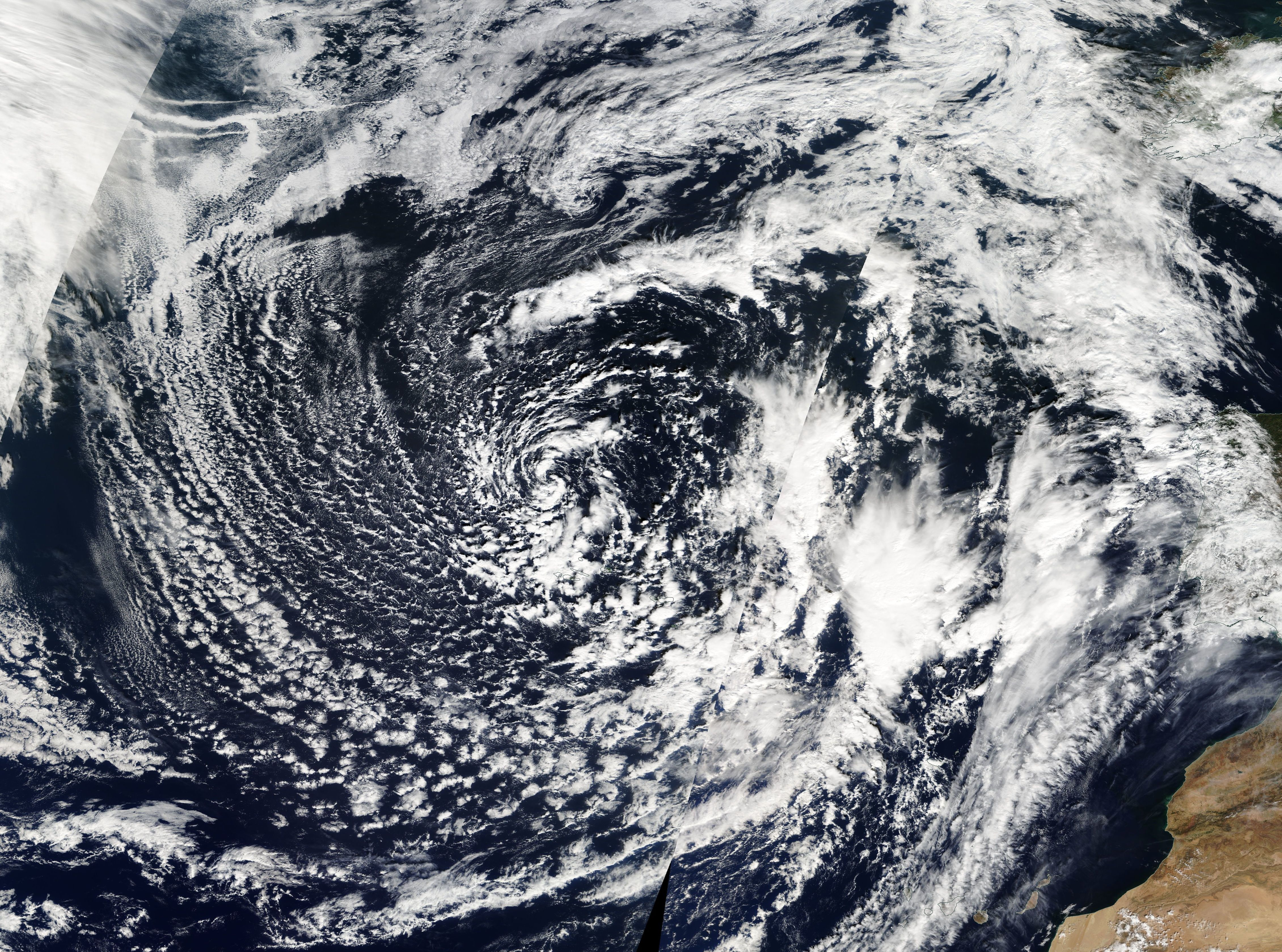 Hurricane Rafael's extratropical remnant approaching Portugal, on October 22, 2012. The system would eventually dissipate over Portugal on October 26.